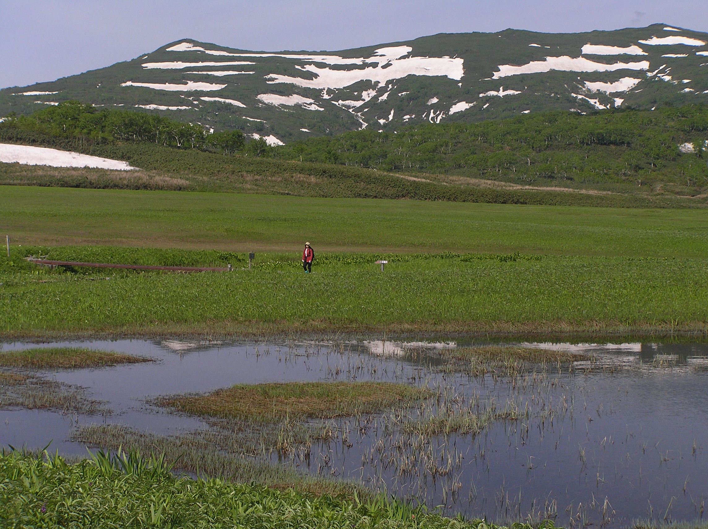 Uryunuma Wetland and Minamishokandake (Mount Minamishokan) in Mashike Mountains, Hokkaido, Japan.